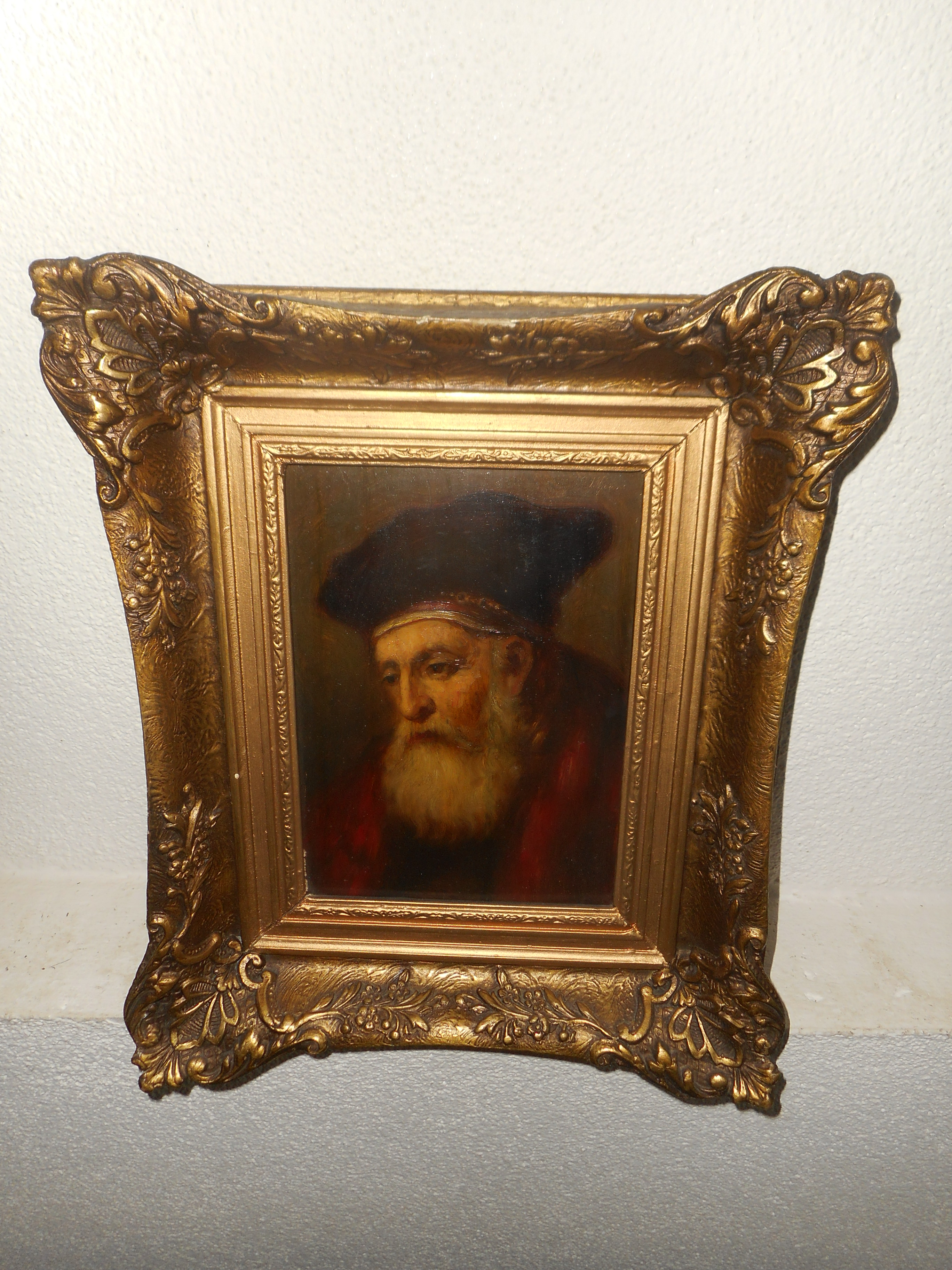 Jan Theuns (1877-1961) "Рембрандт"